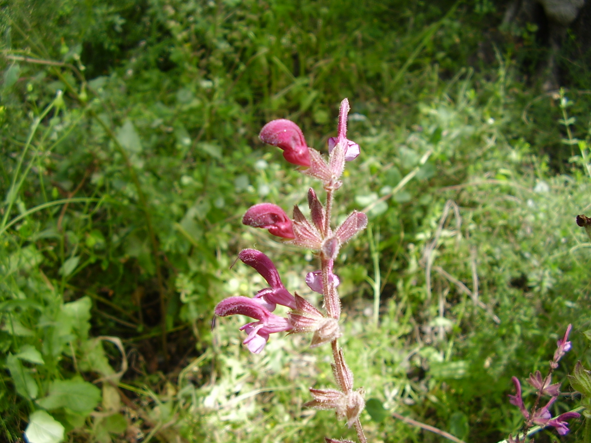 salvia hyerosolymitana (Jerusalem sage)